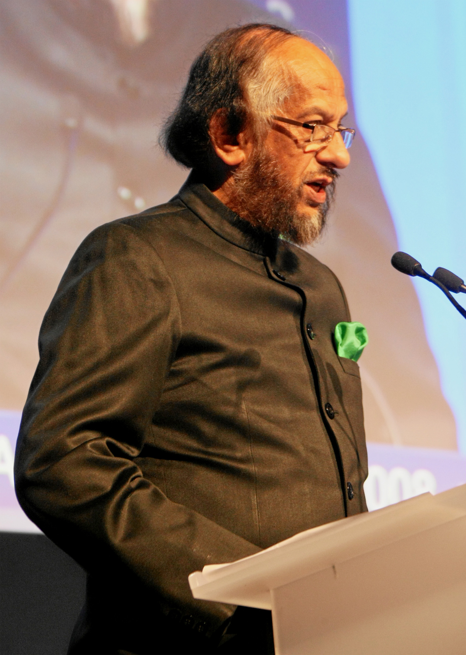 DAVOS/SWITZERLAND, 23JAN08 - Rajendra K. Pachauri, Chairman, Intergovernmental Panel on Climate Change (IPCC), Geneva, captured during the 'Opening Remarks' at the Annual Meeting 2008 of the World Economic Forum in Davos, Switzerland, January 23, 2008.